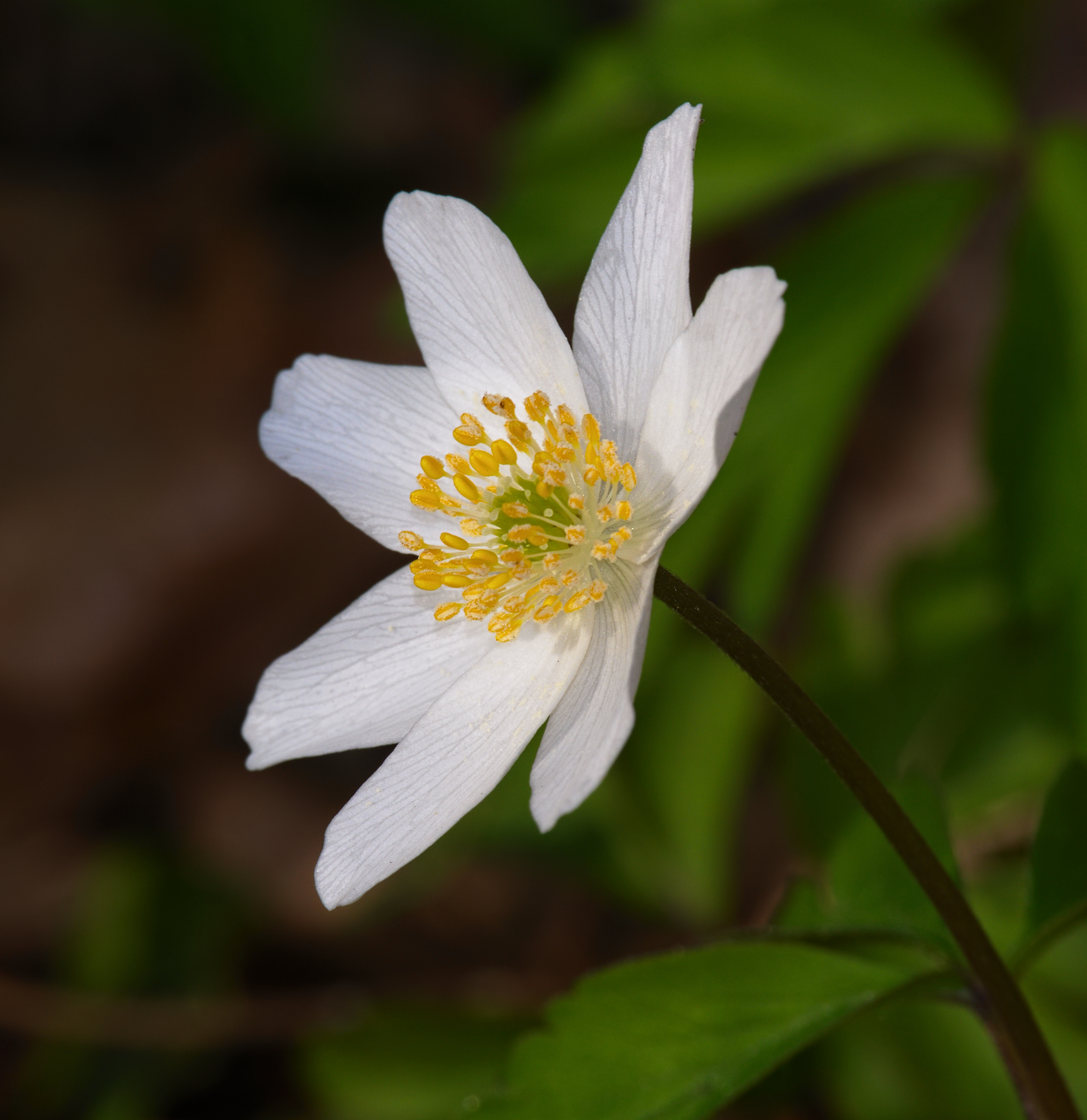 Wood anemone - Anemone nemorosa. Taken in Buchklingen (Odenwald), Hesse, Germany.